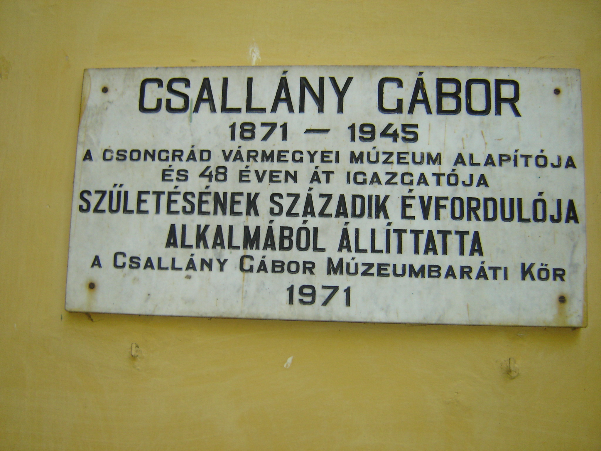 Gábor Csallány commemorative plaque in Szentes.